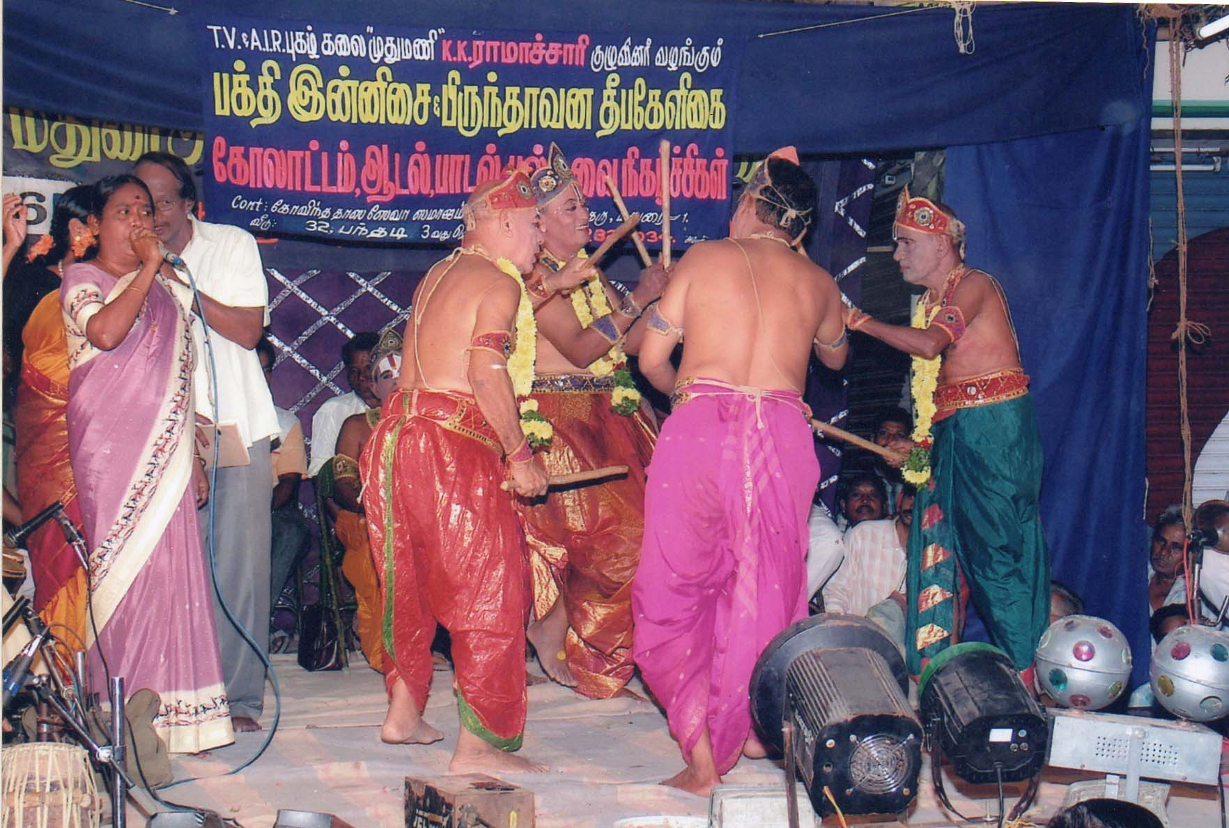 Traditional Stick Dance of Sourashtra People of Madurai, Tamilnadu, India